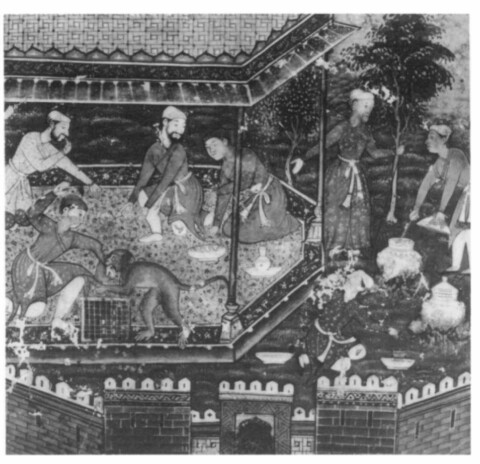 Tutinama page by Daswanth from Cleveland museum of art.